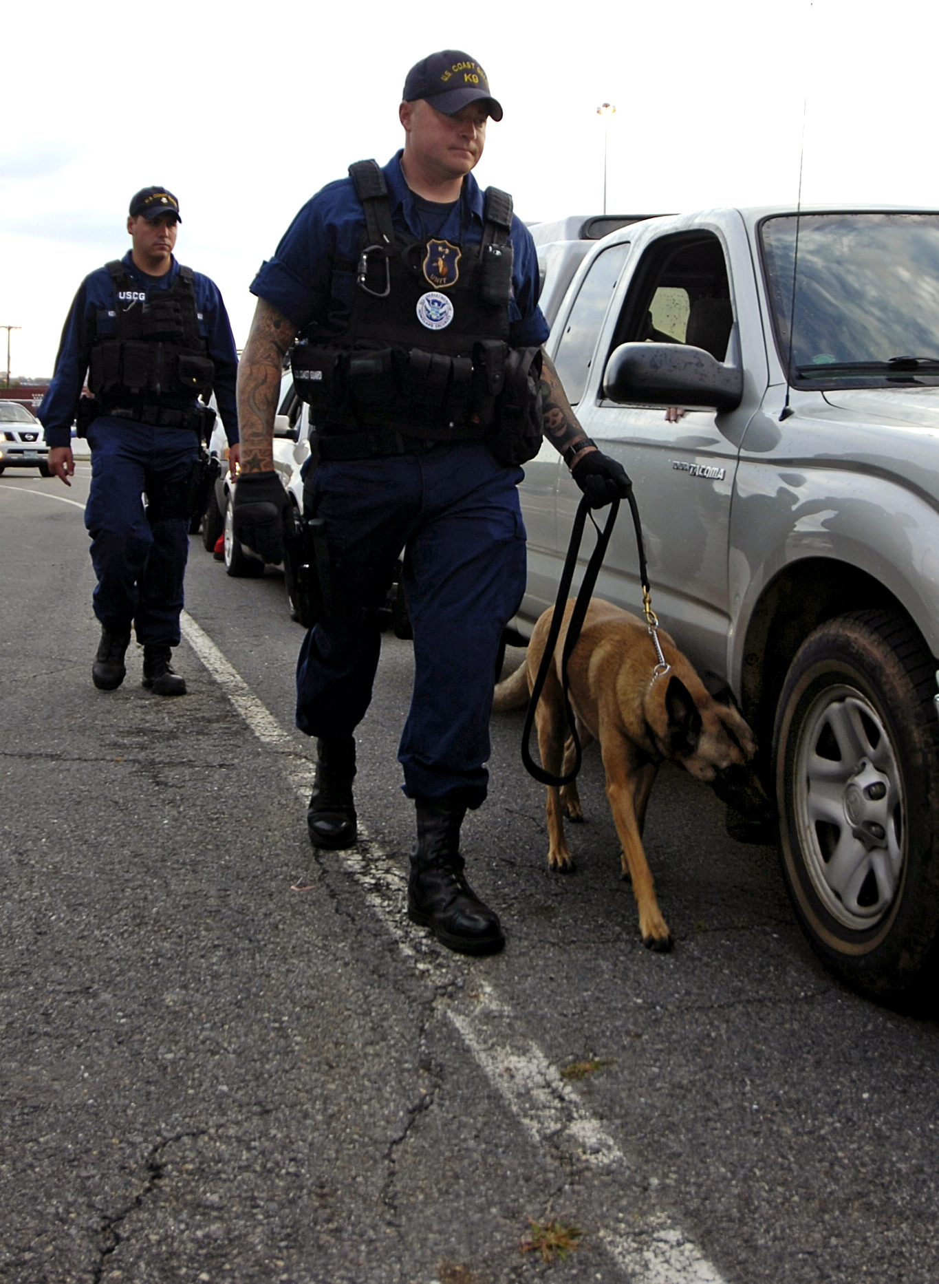 Ferry Inspection (For Release): VIPR team works a line of cars waiting to board the Cat ferry to Nova Scotia at the Portland International Marine Terminal Friday, August 17, 2007.